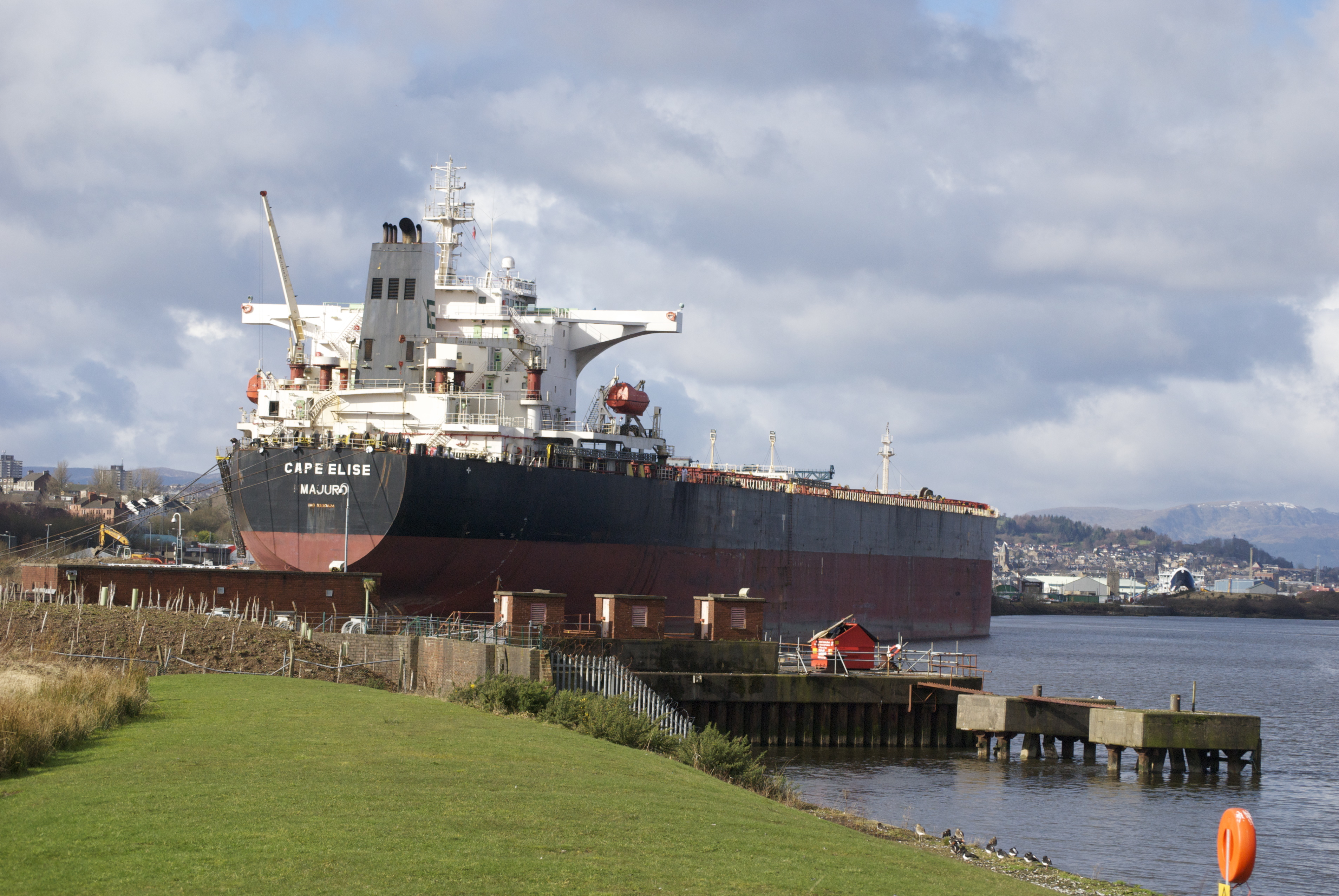 View from the coastal path adjacent to the Kingston housing development in Greenock, on the site of the former Lithgows Glen shipyard. The ship is the Capesize bulk carrier Cape Elise built in 2005, deadweight tonnage 174124 t Length overall 289 m Breadth extreme 45 m, registered at Majuro, at Inchgreen quay. On 1 February 2014 in stormy seas at 52 07N 014 50W a wave struck the ship, causing loss of power, steering and radar, about 180 nautical miles (333km) west of Loop Head, Ireland. It was taken in tow by four tugs, and discharged its cargo of 170,000 tonnes of coal at Hunterston Terminal before being towed to Greenock for repairs, where it arrived on 2 March 2014. Superstructure at the stern was damaged, visible in the photo as a twisted stairway. It was anticipated that repairs would take three weeks. refs: CAPE ELISE (IMO 9330824) : Ship Database - World Vessels Register Search Garda initiative to tackle crime the old-fashioned way launched city-wide - Independent.ie, Irish Independent published 2 February 2014, see "Cargo Ship Adrift Off West Coast" under "Read More" tab. Maritime Bulletin - Capesize bulk carrier Cape Elise drifting in the Atlantic off Ireland STRICKEN Ship Will be Biggest At Inchgreen Berth For Decades SHIPPING Photostream -- Cape Elise Tow